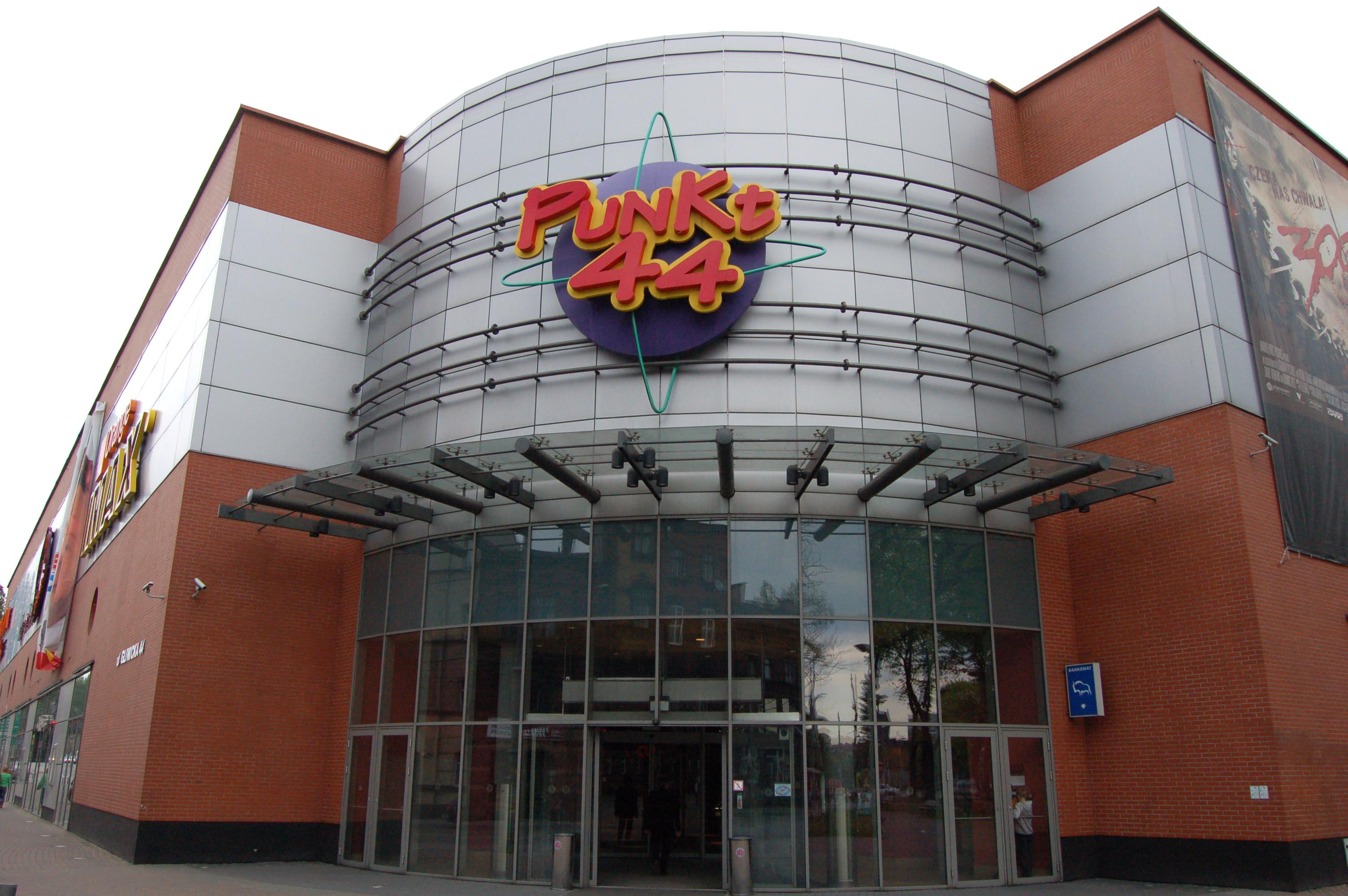 Katowice Multipleks Punkt 44 License on Flickr (2011-03-08): CC-BY-SA-2.0 Flickr tags: Upper Silesia, Górny Śląsk, Katowice, Centrum, Center, Architektura, Architecture